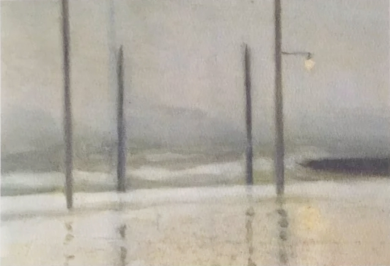 Wet Night, Brighton, oil on board; 26.6 x 38.0 cm, private collection